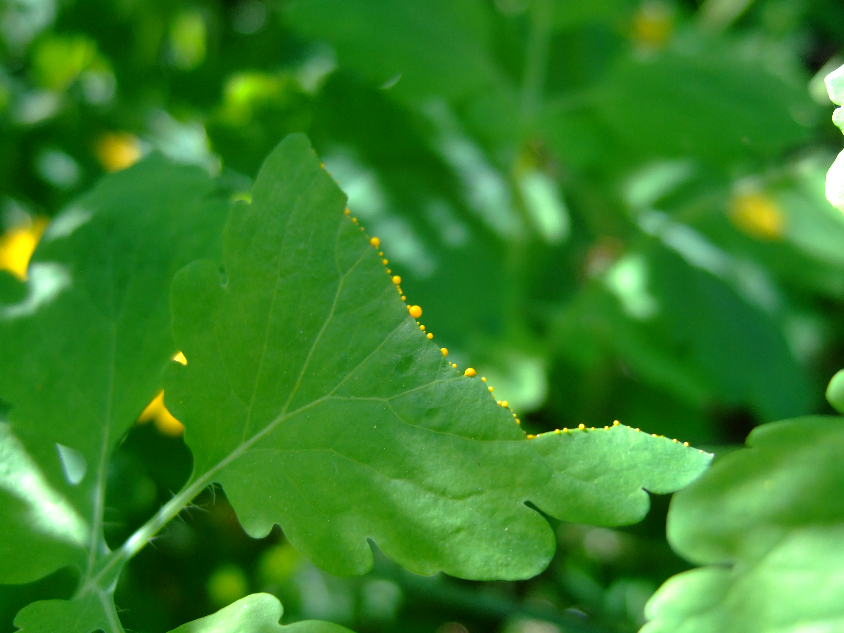 Greater Celandine severed leaf with the characteristical yellow sap in Kirchwerder, Hamburg.